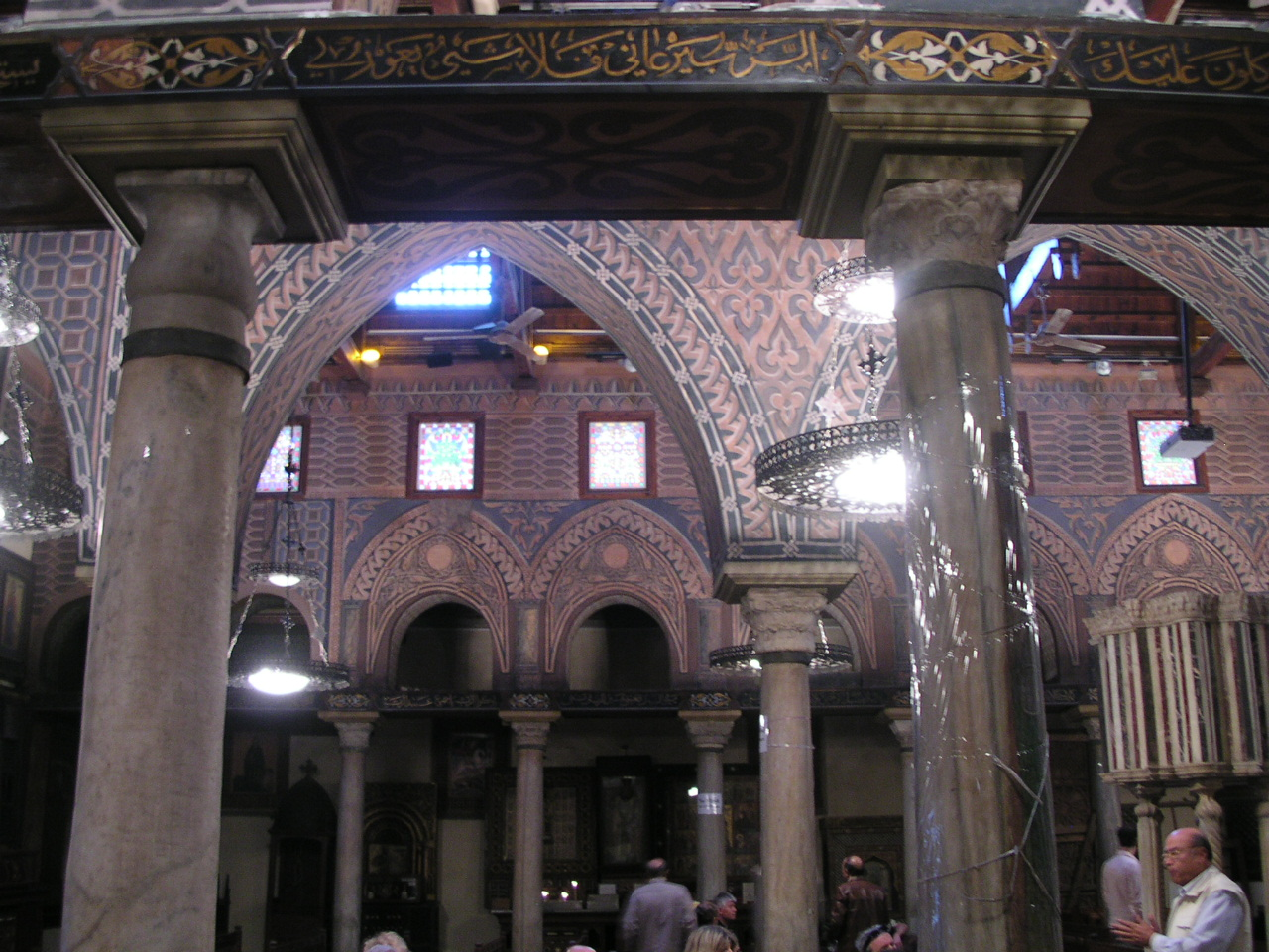 Hanging Church (Cairo) Taken in February 2007 Cairo